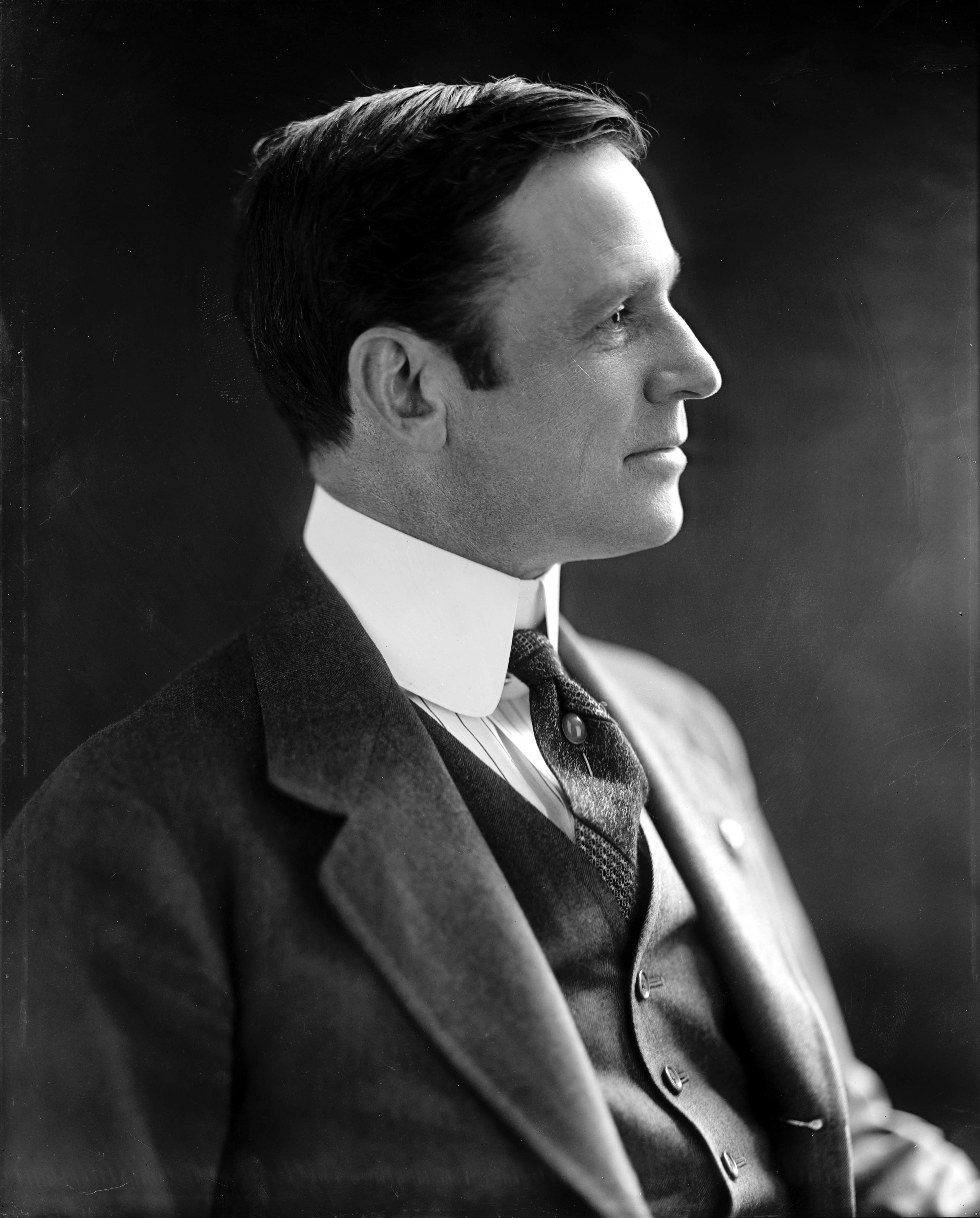 Ernest Peixotto, American muralist and writer